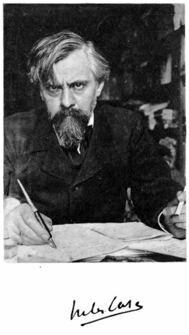 French writer and journalist Jules Case (1854-1931)